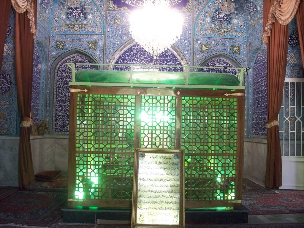 شاهزاده عبدالله